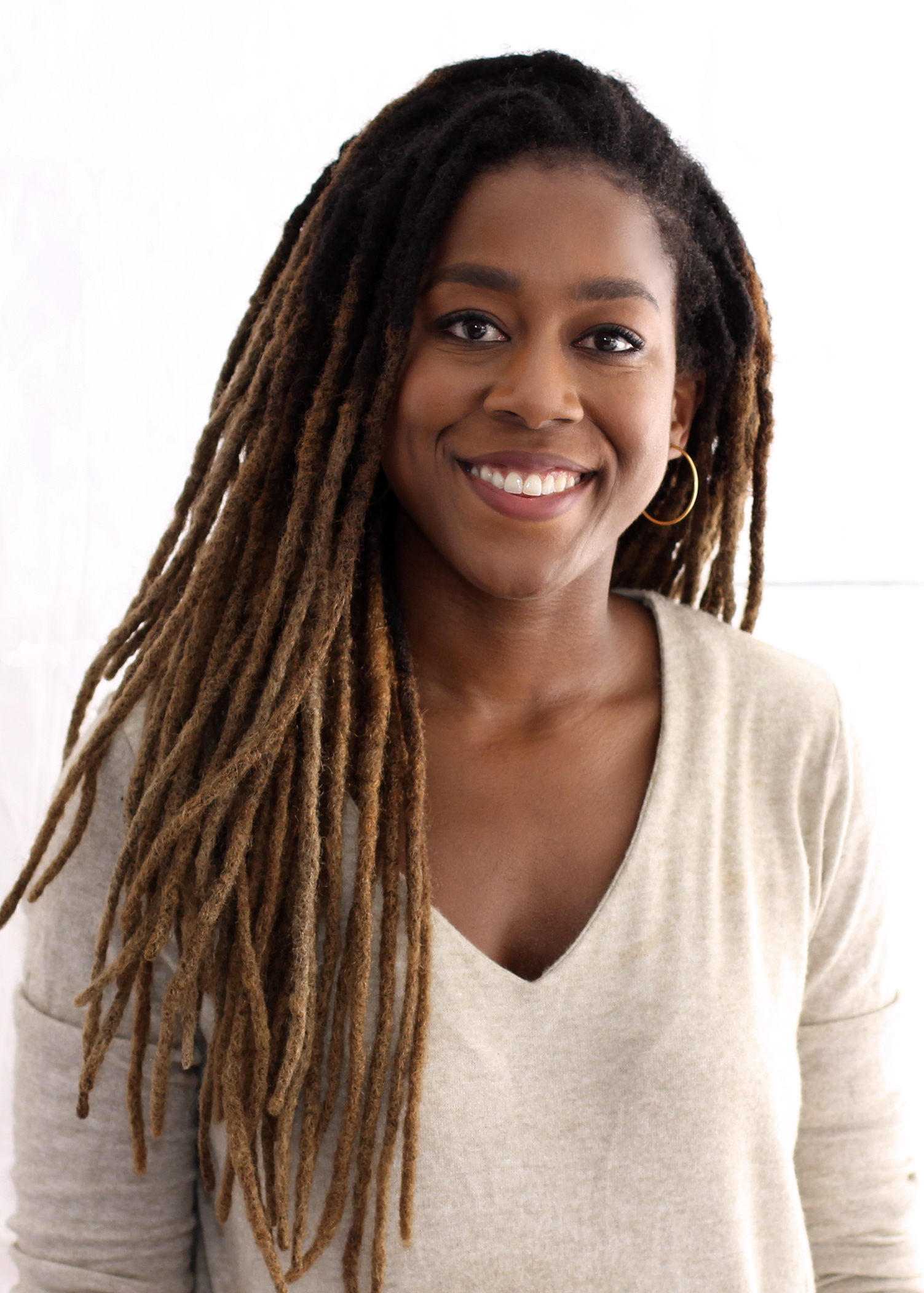 Author Tomi Adeyemi at the 2018 Texas Book Festival in Austin, Texas, United States.